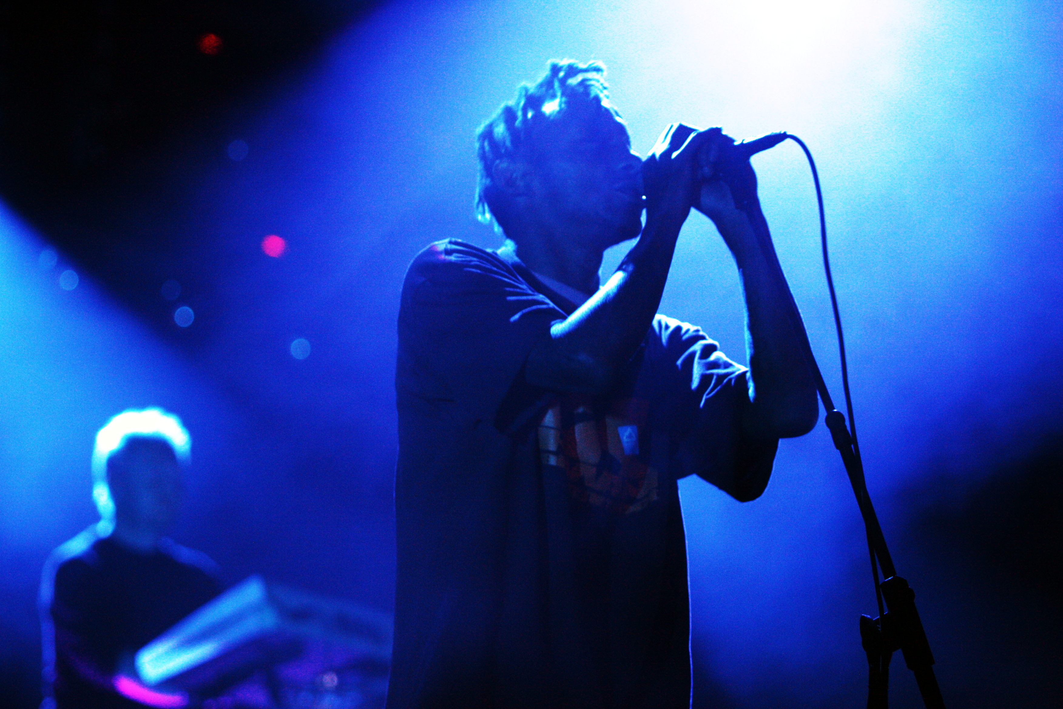 Tricky at Pully For Noise festival 2008